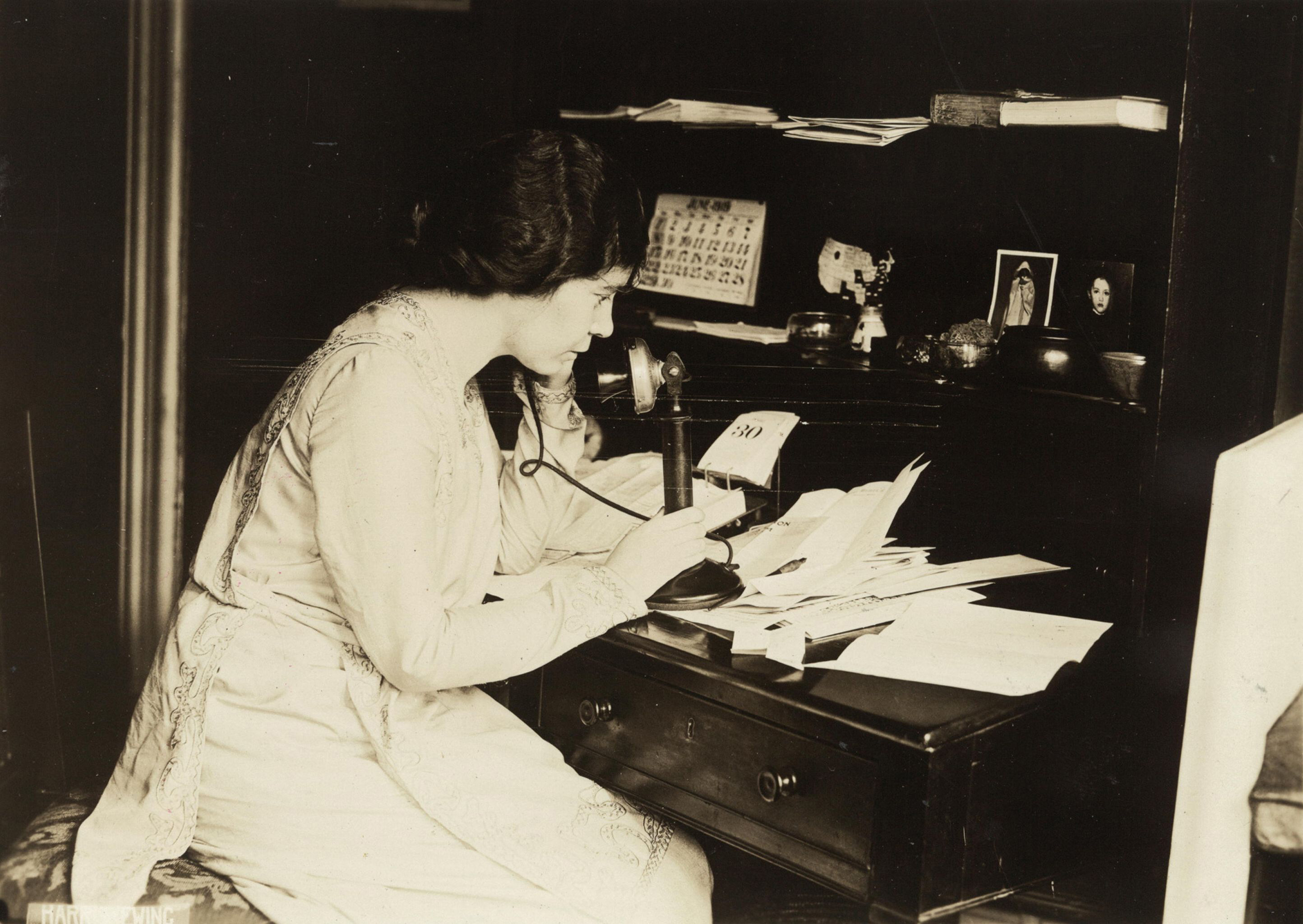 Photograph of Alice Paul, seated at desk, in profile, speaking on telephone.